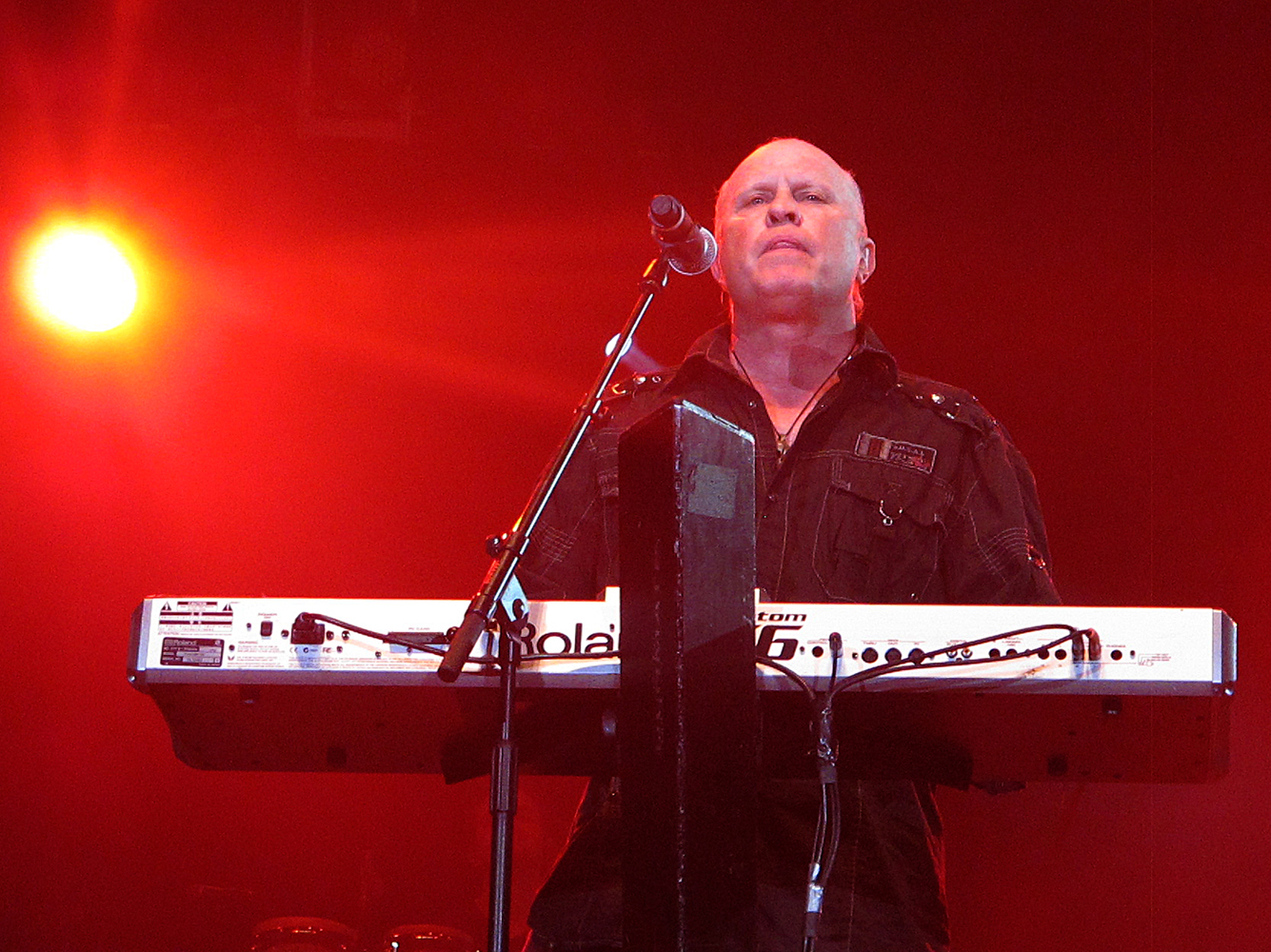 Mike Score, Flock of Seagulls, taken at The Liverpool Echo Arena, 25 June 2011.